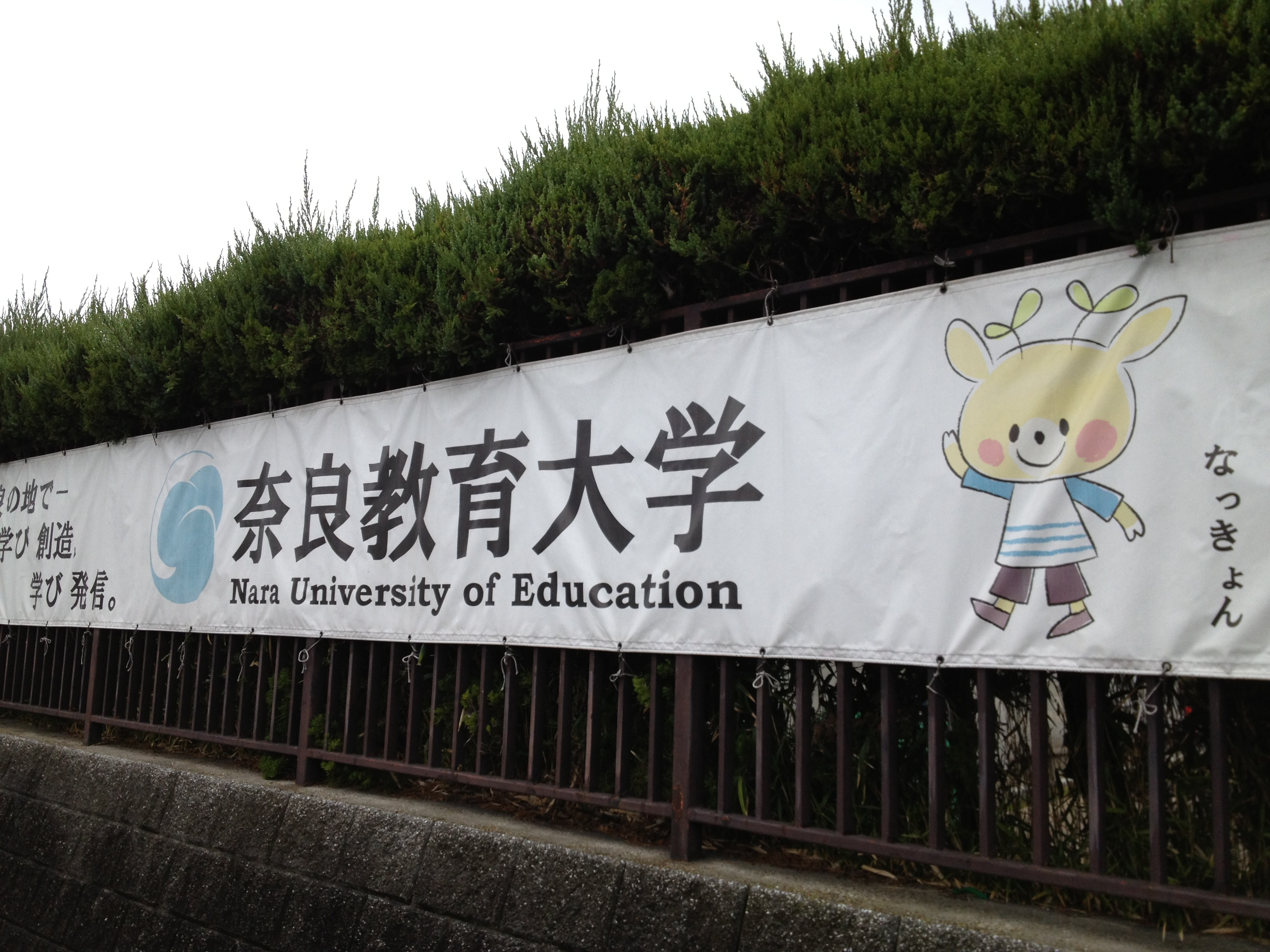 Nakkon at the entrance of Nara University of Education